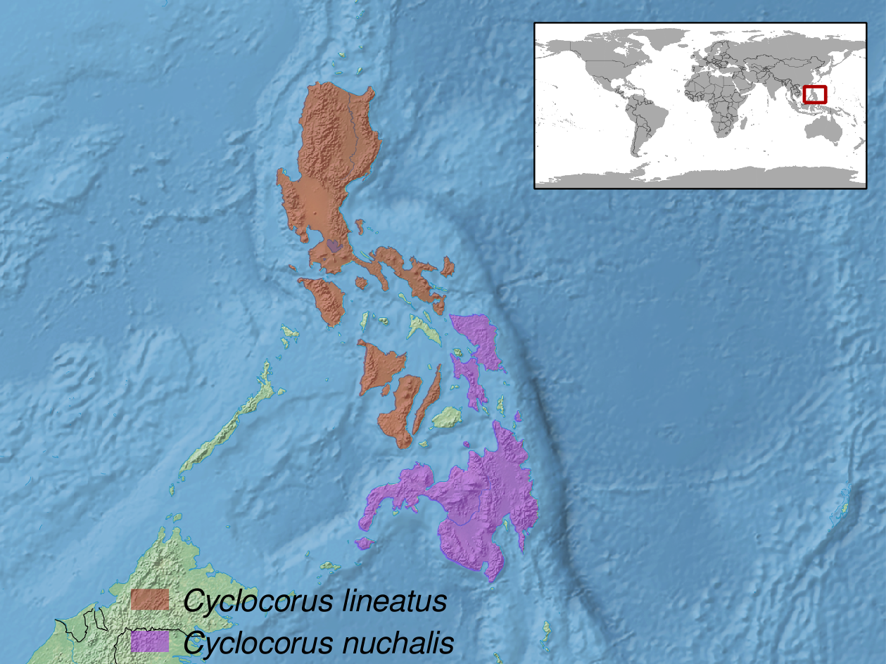 geographic distribution of the genus Cyclocorus. Included species for RDB: Cyclocorus lineatus and Cyclocorus nuchalis